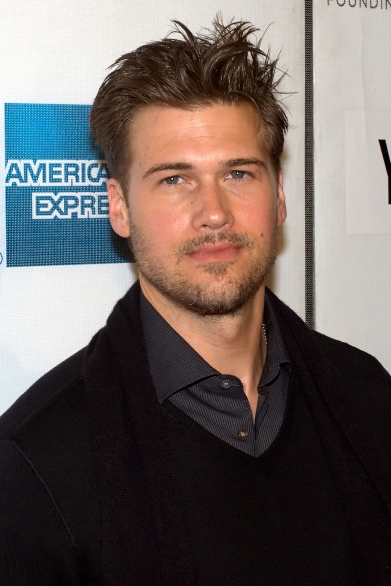 Nick Zano at Tribeca Film Festival 2010